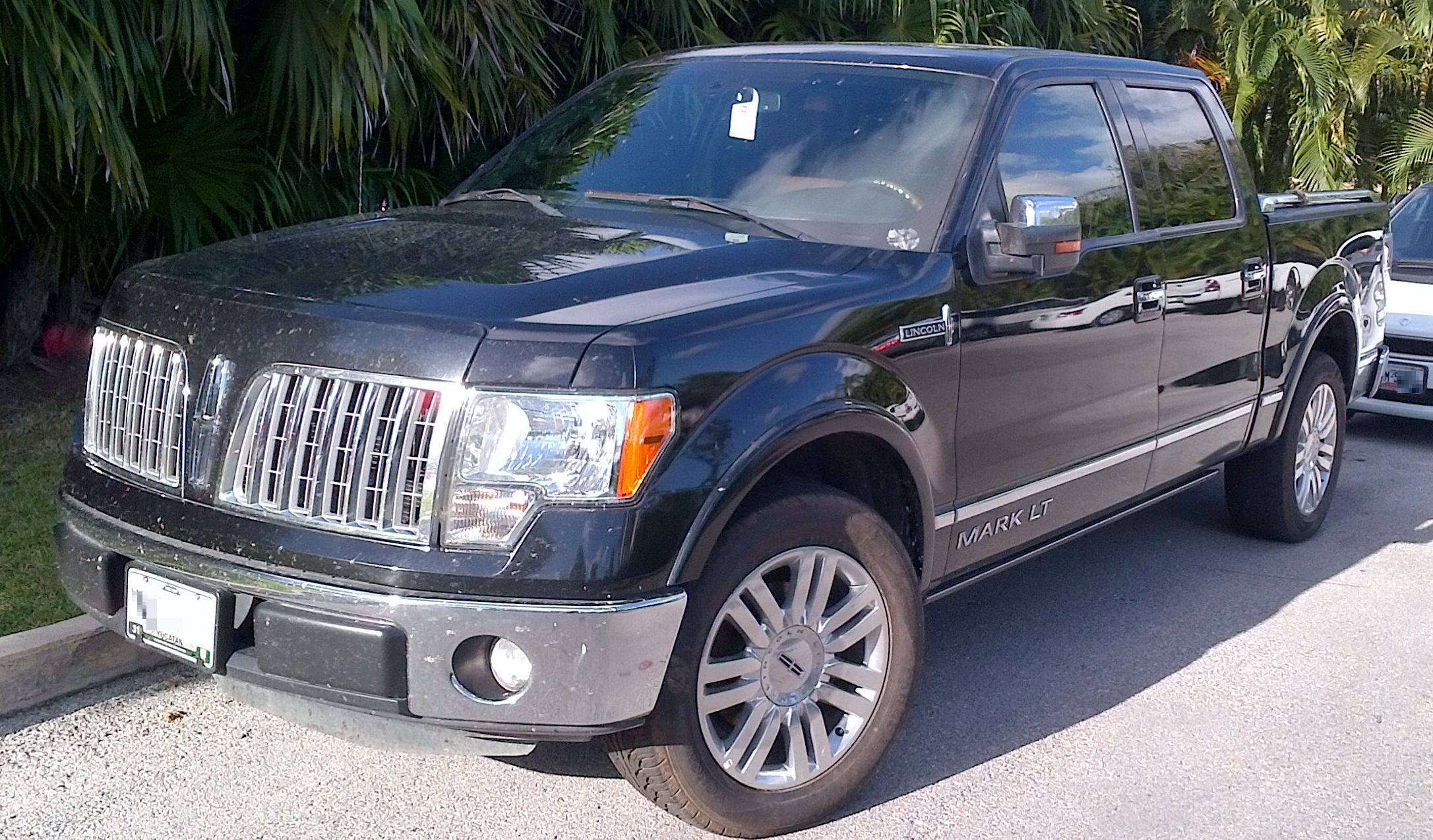 Lincoln Mark LT photographed in Cancun, Quintana Roo, Mexico.